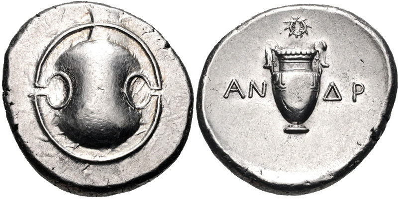 BOEOTIA, Thebes. Circa 395-338 BC. AR Stater (24mm, 12.22 g). Andr(okleidas), magistrate. Struck circa 390-382 BC. Boeotian shield / Amphora; wreath above; AN-ΔP across central field; all within incuse circle.